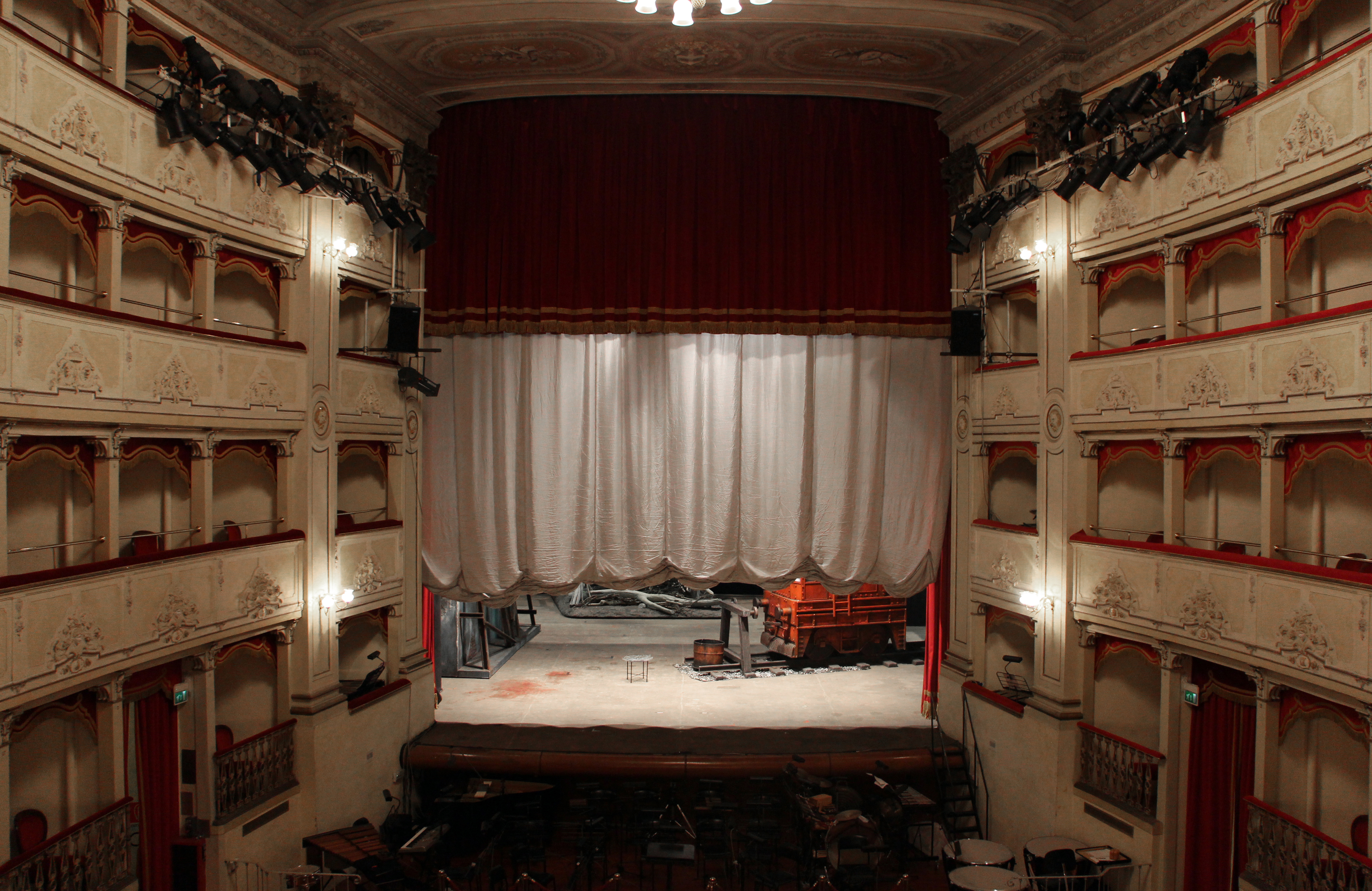 Teatro Goldoni (Florence) - Interior